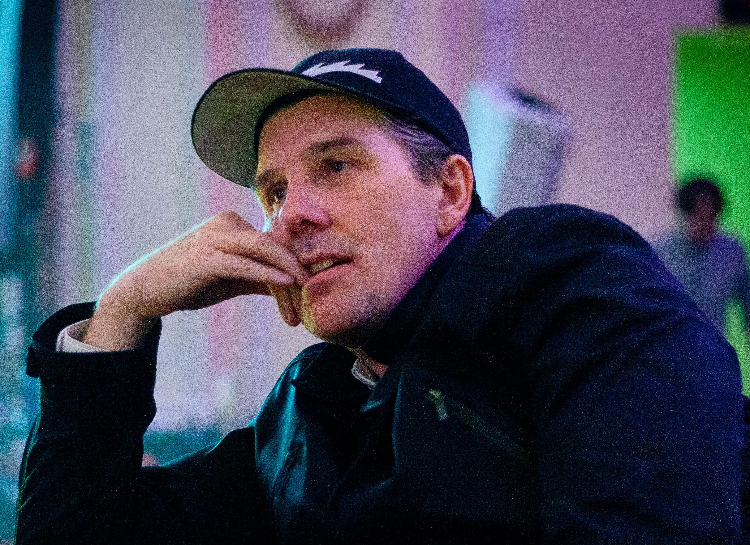 Marcel Grant on set